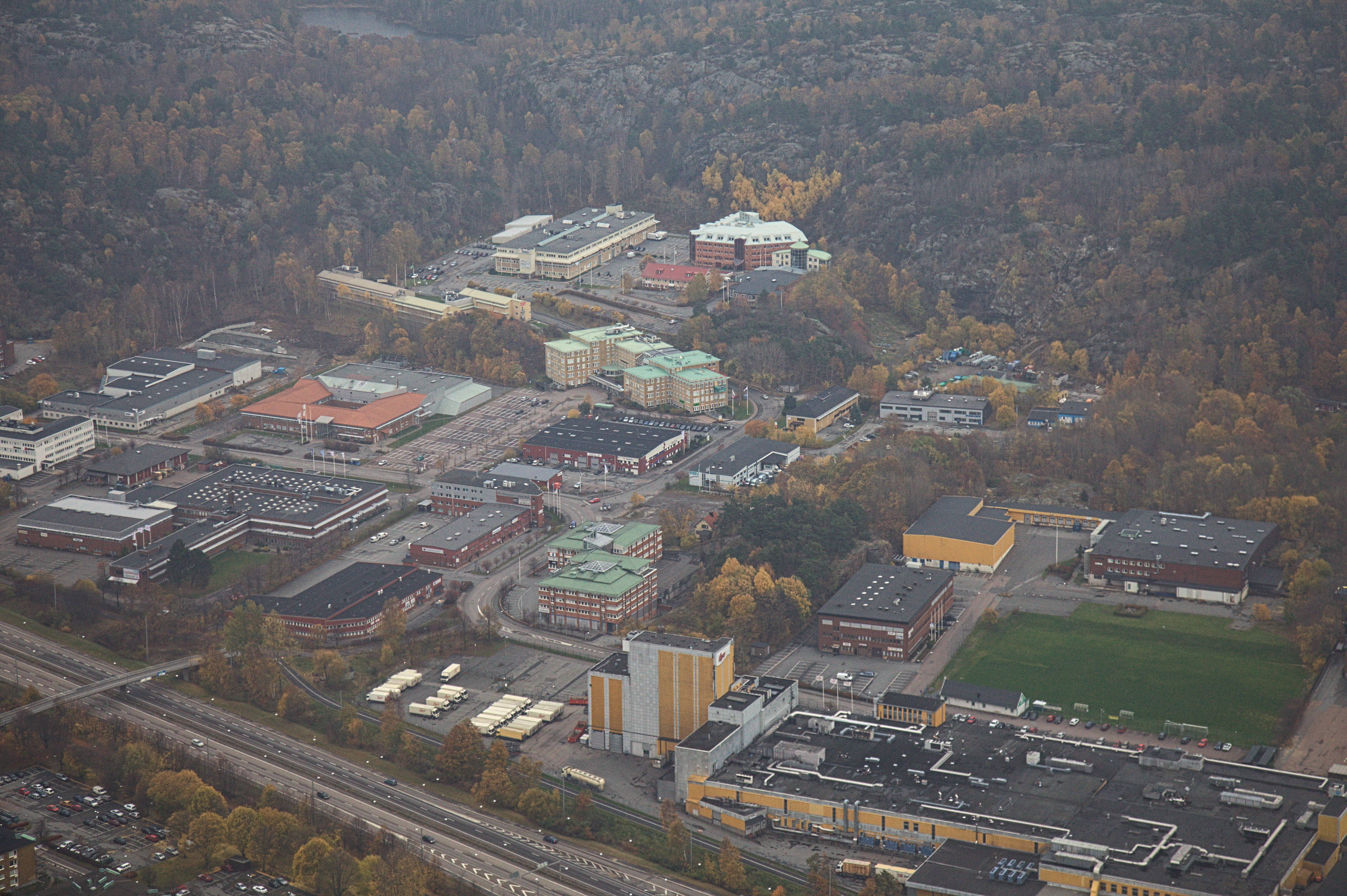 Photo taken on a helicopter over Gothenburg